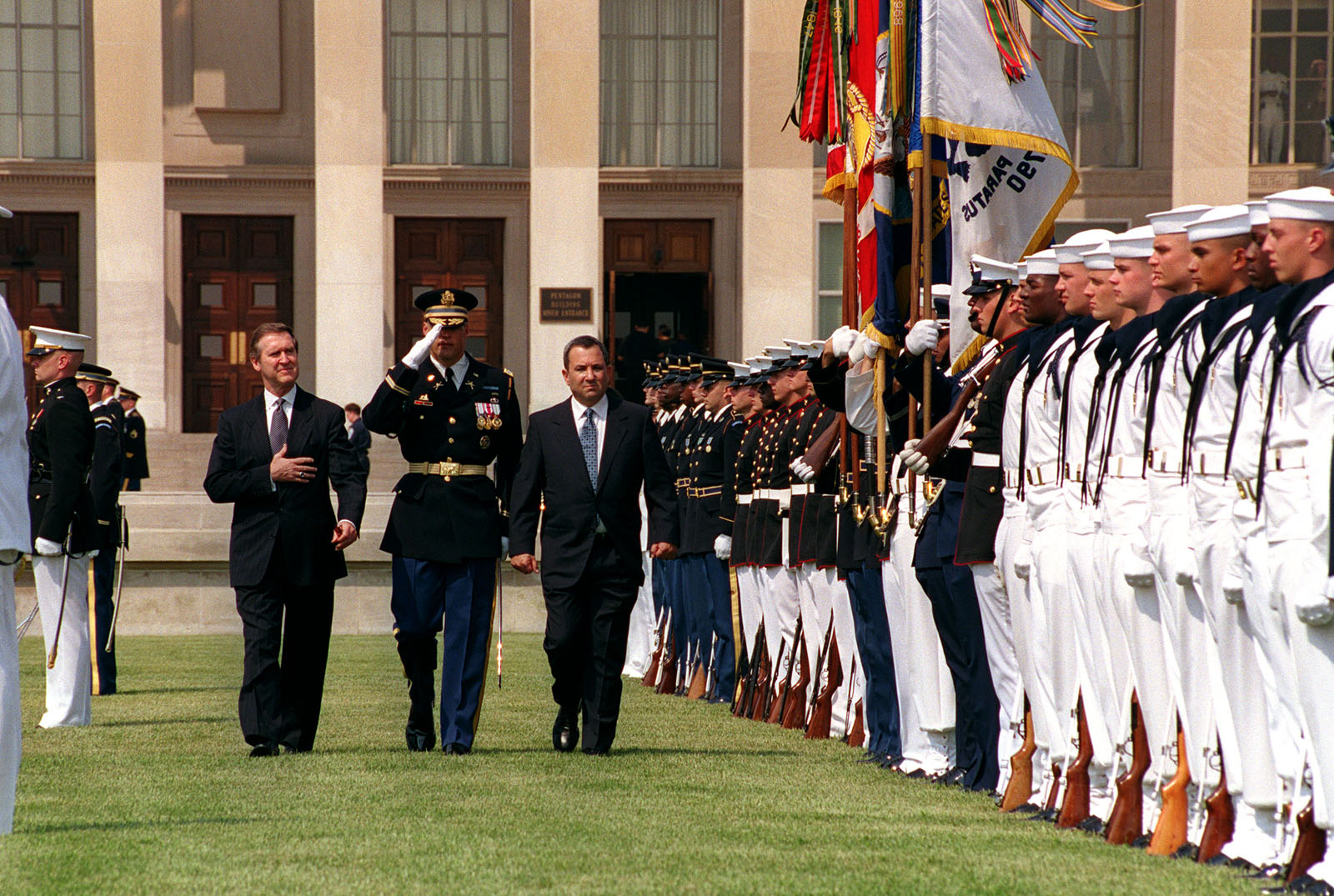 Israeli Prime Minister Ehud Barak (right) is escorted by Commander of Troops Col. Thomas M. Jordan (center), U.S. Army, and Secretary of Defense William S. Cohen (left) as Barak inspects the joint honor guard during an arrival ceremony at the Pentagon on July 16, 1999. Cohen and Barak will meet to discuss defense issues of interest to both nations. DoD photo by Helene C. Stikkel.